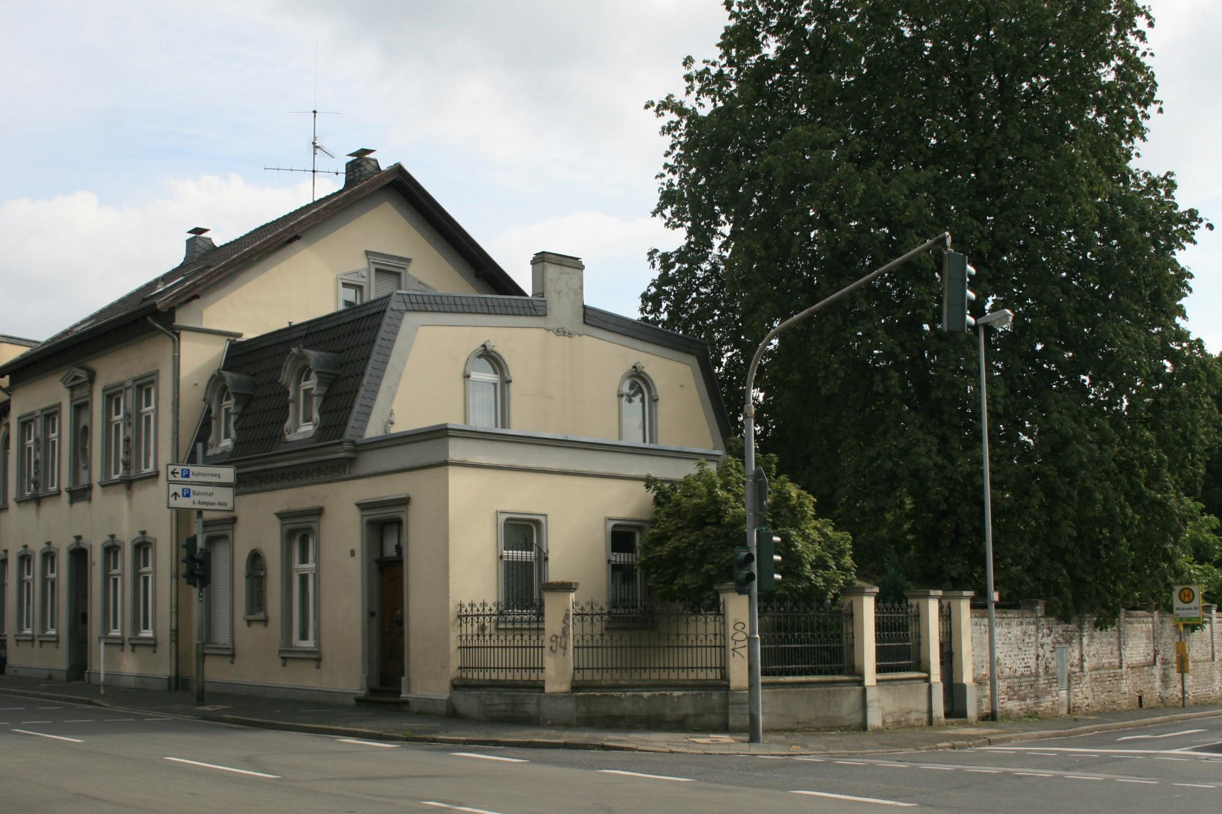 Cultural heritage monument No. R 015 in Mönchengladbach